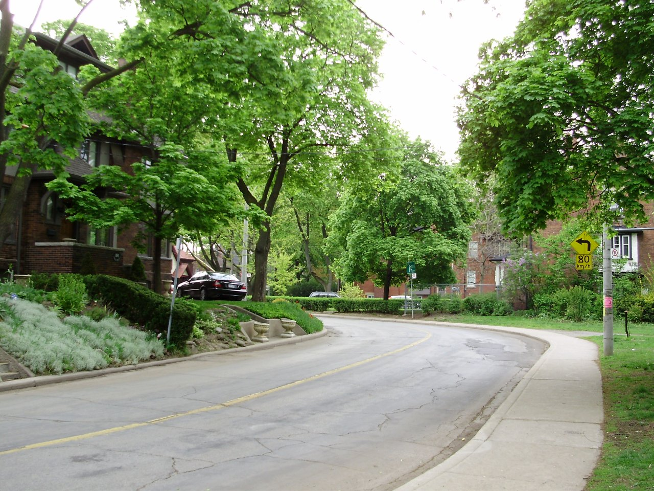 Looking south down Wells Hill Avenue, a residential street in the Toronto neighborhood of Casa Loma, just south of St. Clair Avenue West.